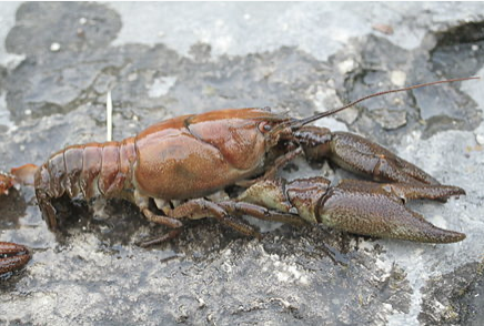 Austropotamobius pallipes